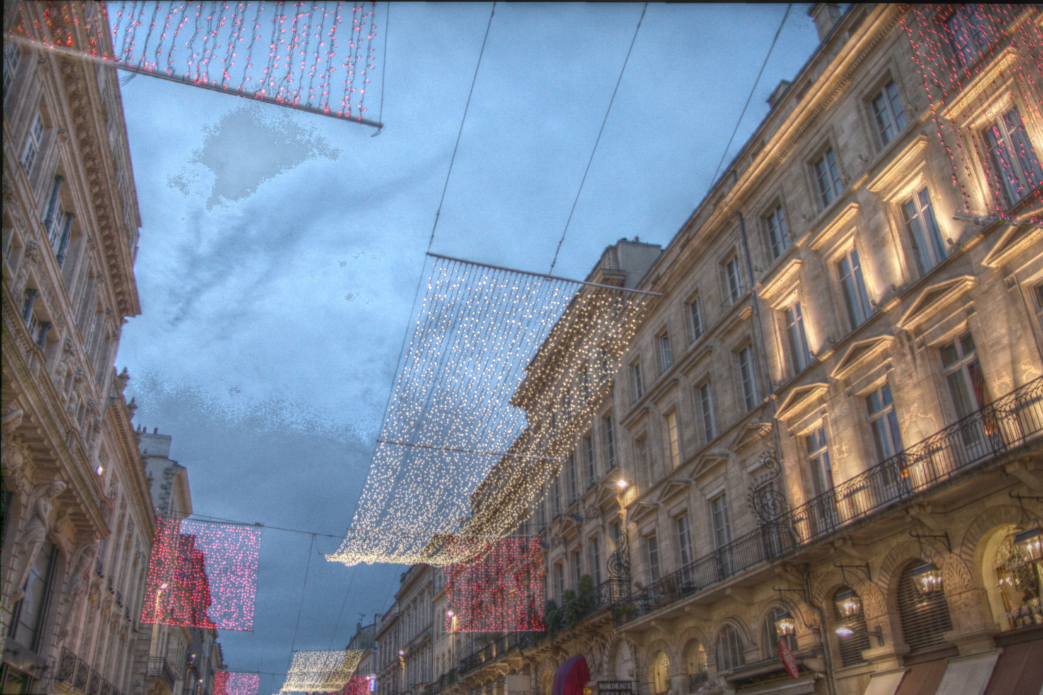 Lights on the cours de l'Intendance, Bordeaux, France (high dynamic range picture made from 3 shots with different bracketing).